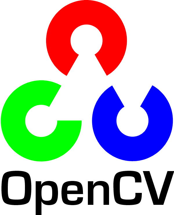 The OpenCV logo is composed of the 3 capital letters O, C, V arranged in a triangle. The logo combines several motifs in the spirit of Open Source and Computer Vision.